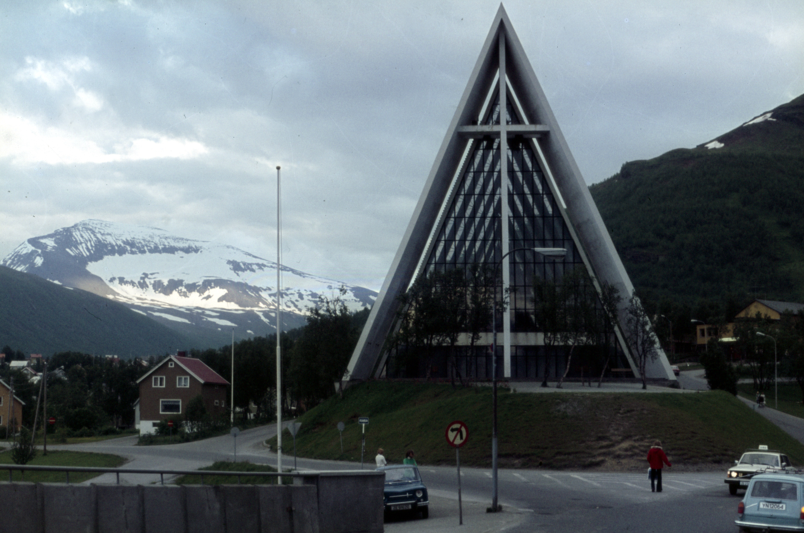 Tromsø in Norway 1975